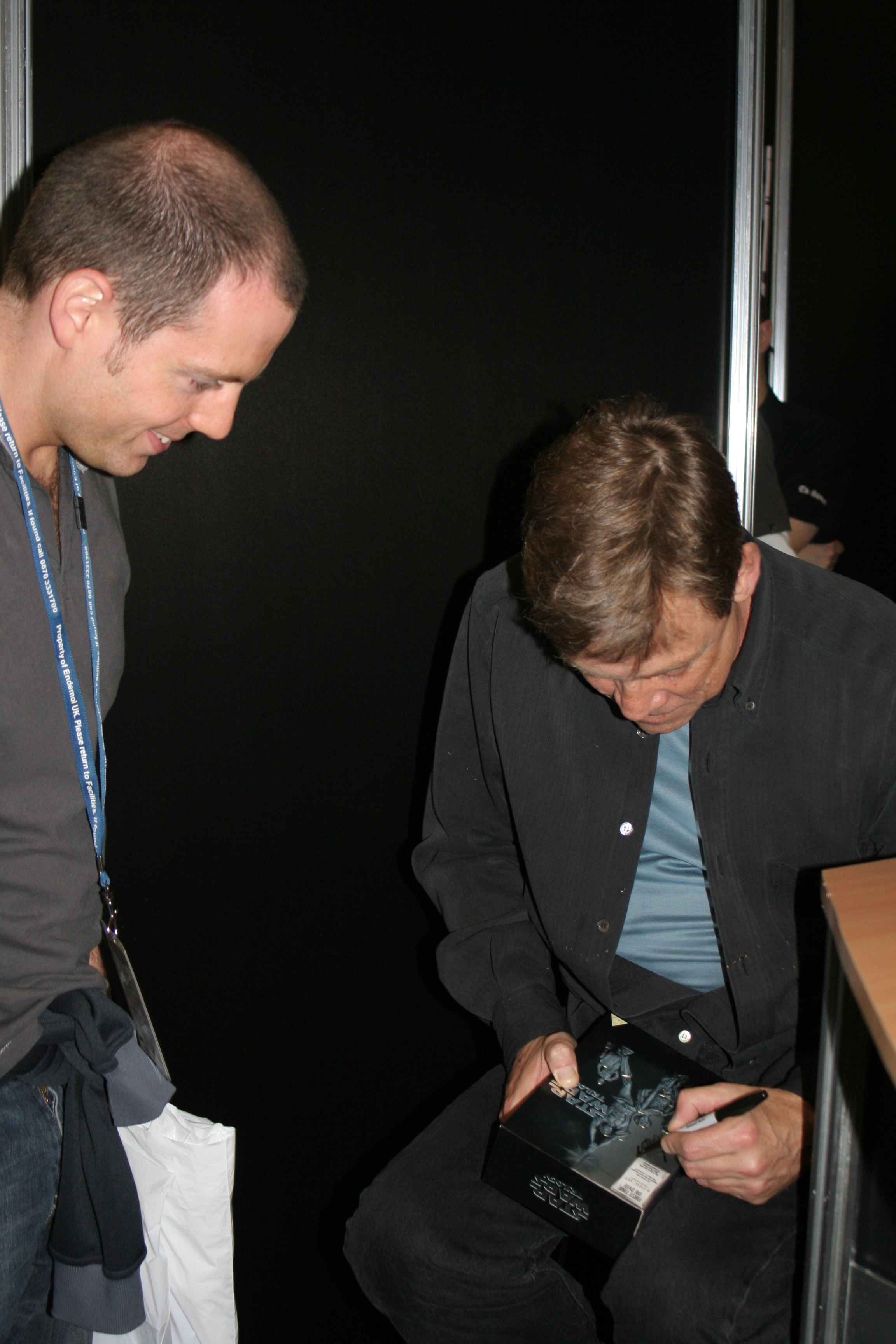 Mark Hamill (right) during Star Wars 30 Year Celebration signing a set of DVD's. Orginal text: A surreal and fantastic day out A surreal and fantastic day out in the Excell Centre for the Star Wars 30 Year Celebration